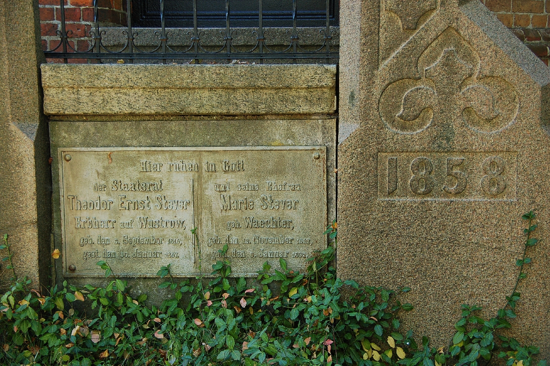 Pictures from Rerik